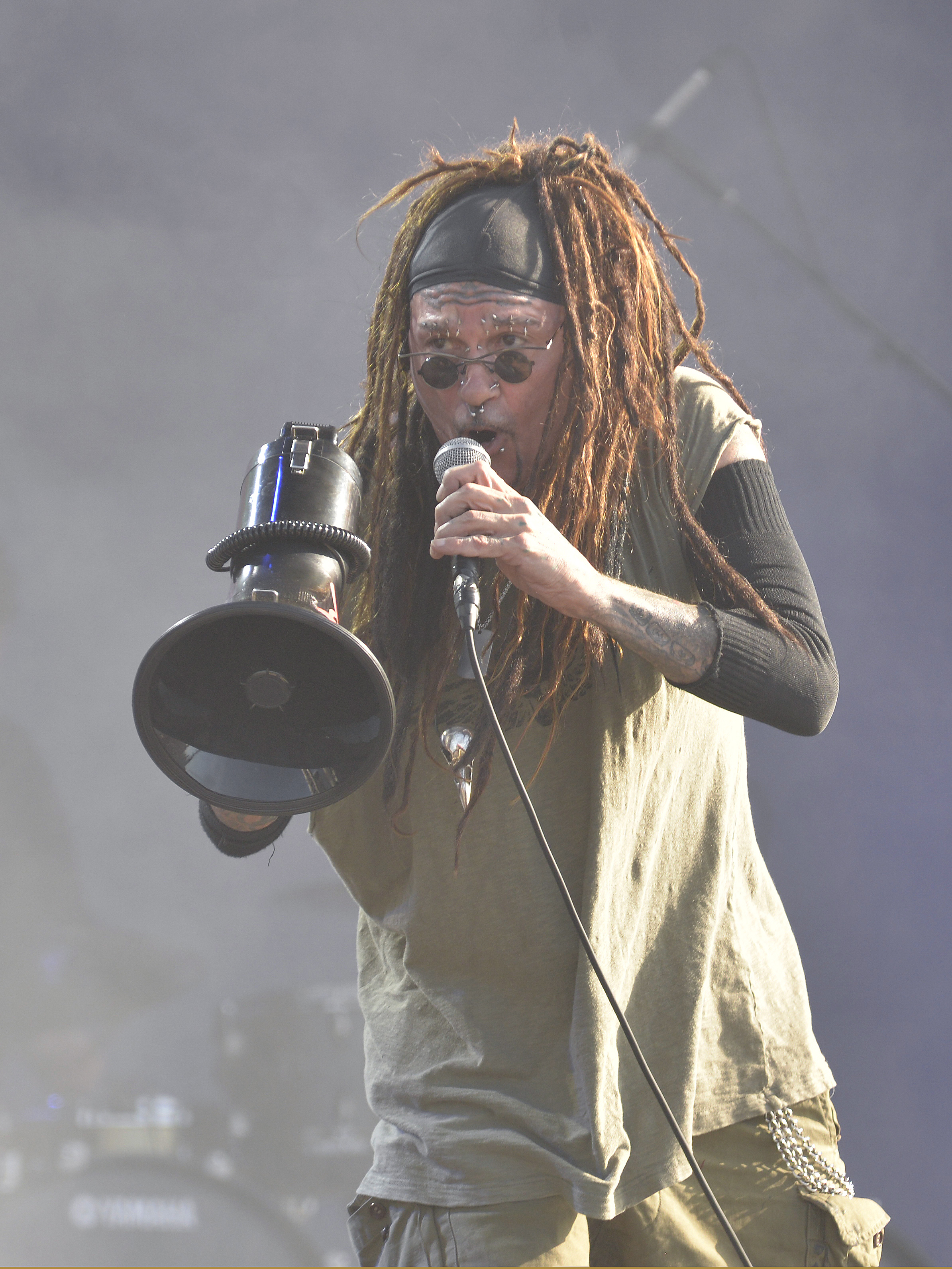 Ministry show at 2017 Hellfest, France.